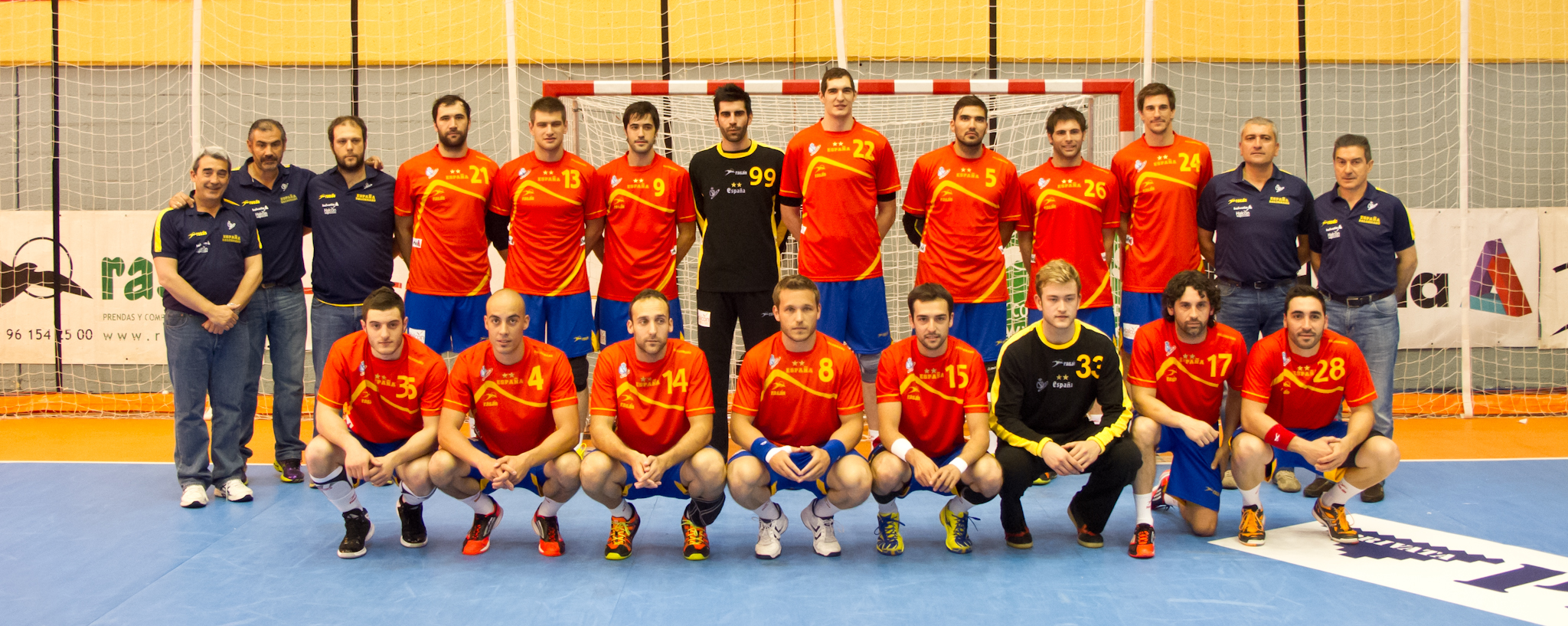 Spain men's national handball team at the Handball All Star Game 2013, held in San Sebastián de los Reyes, Madrid, Spain.